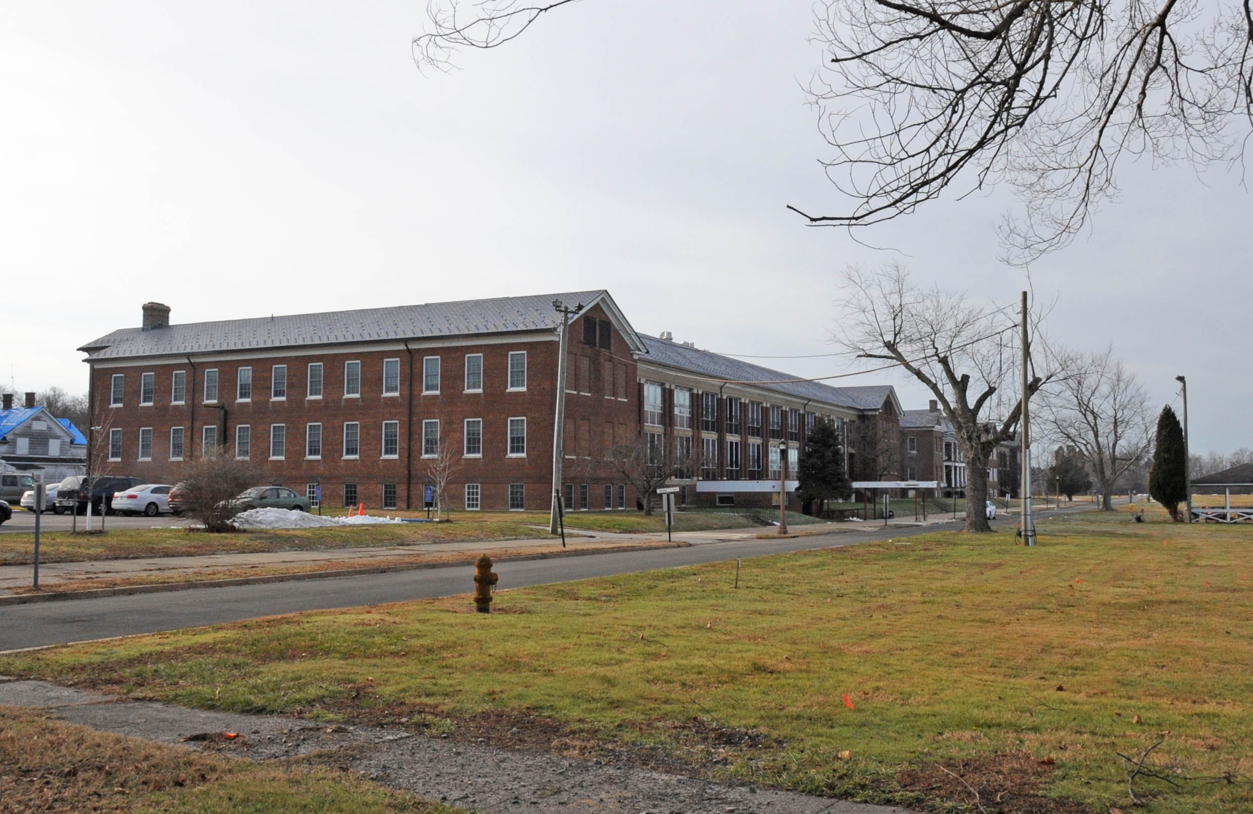 OLD BARRACKS BUILDING AND BAND BARRACKS IS NOW UTILIZED AS THE GOVERNOR BACON HEALTH CENTER. MOST OF THE FORTS 300 BUILDINGS HAVE BEEN DEMOLISHED OR STAND IDLE BUT SOME SUCH AS THE HEALTH CENTER ARE BEING UTILIZED FOR OTHER PURPOSES